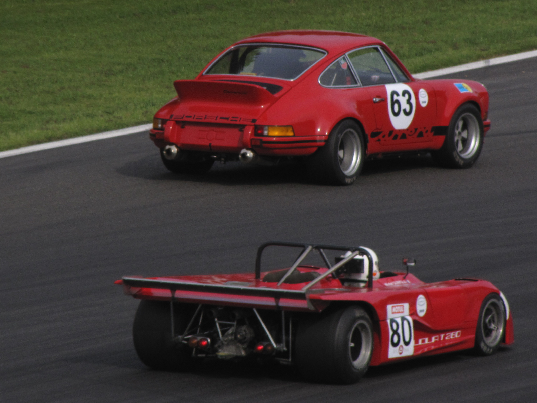 a Porsche 911 Carrera RS and a Lola T280 - Ford Cosworth in Spa 2009.